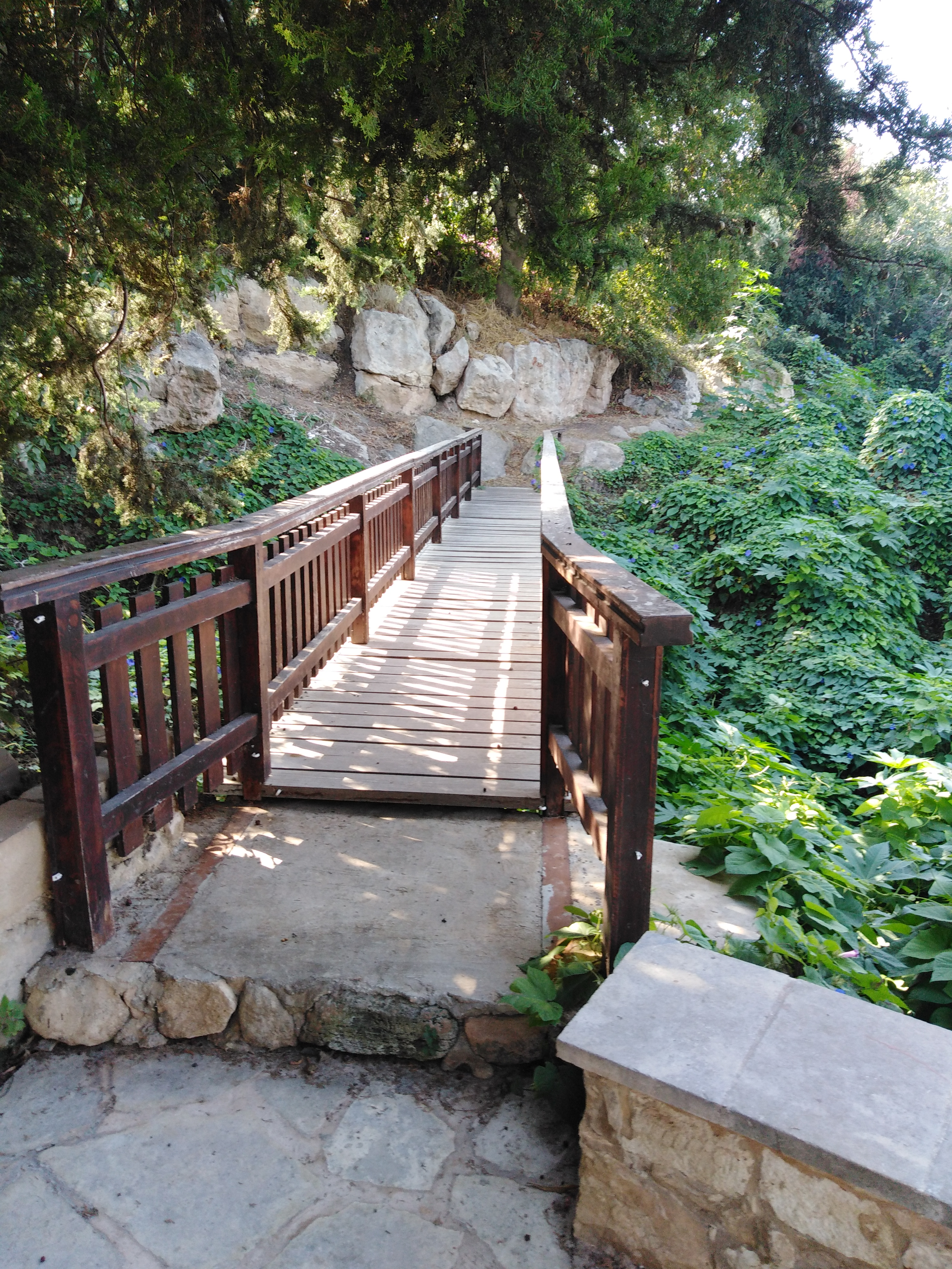 Flower Valey, Lempa